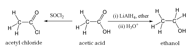 A couple of typical organic reactions of acetic acid.